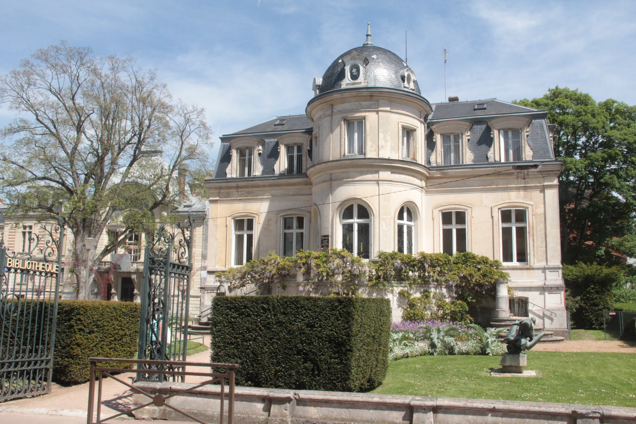 Evreux Library